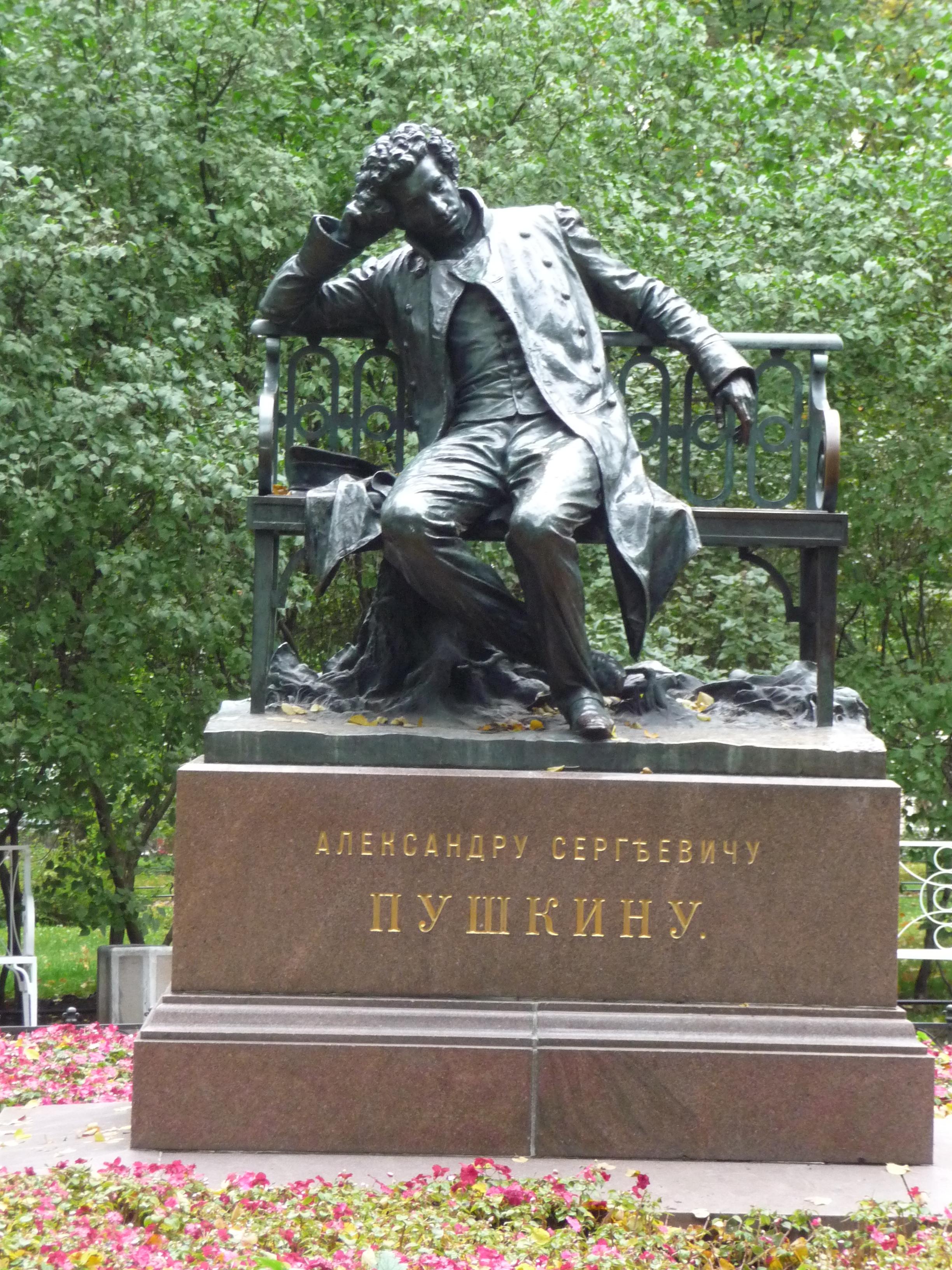 Pushkin's Monument in Pushkin town